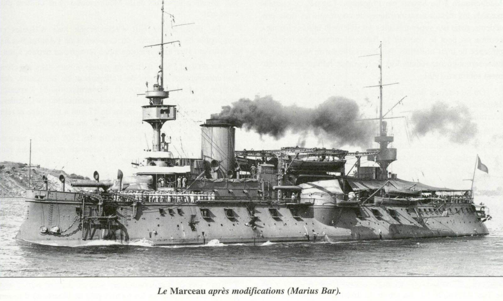 French battleship Marceau